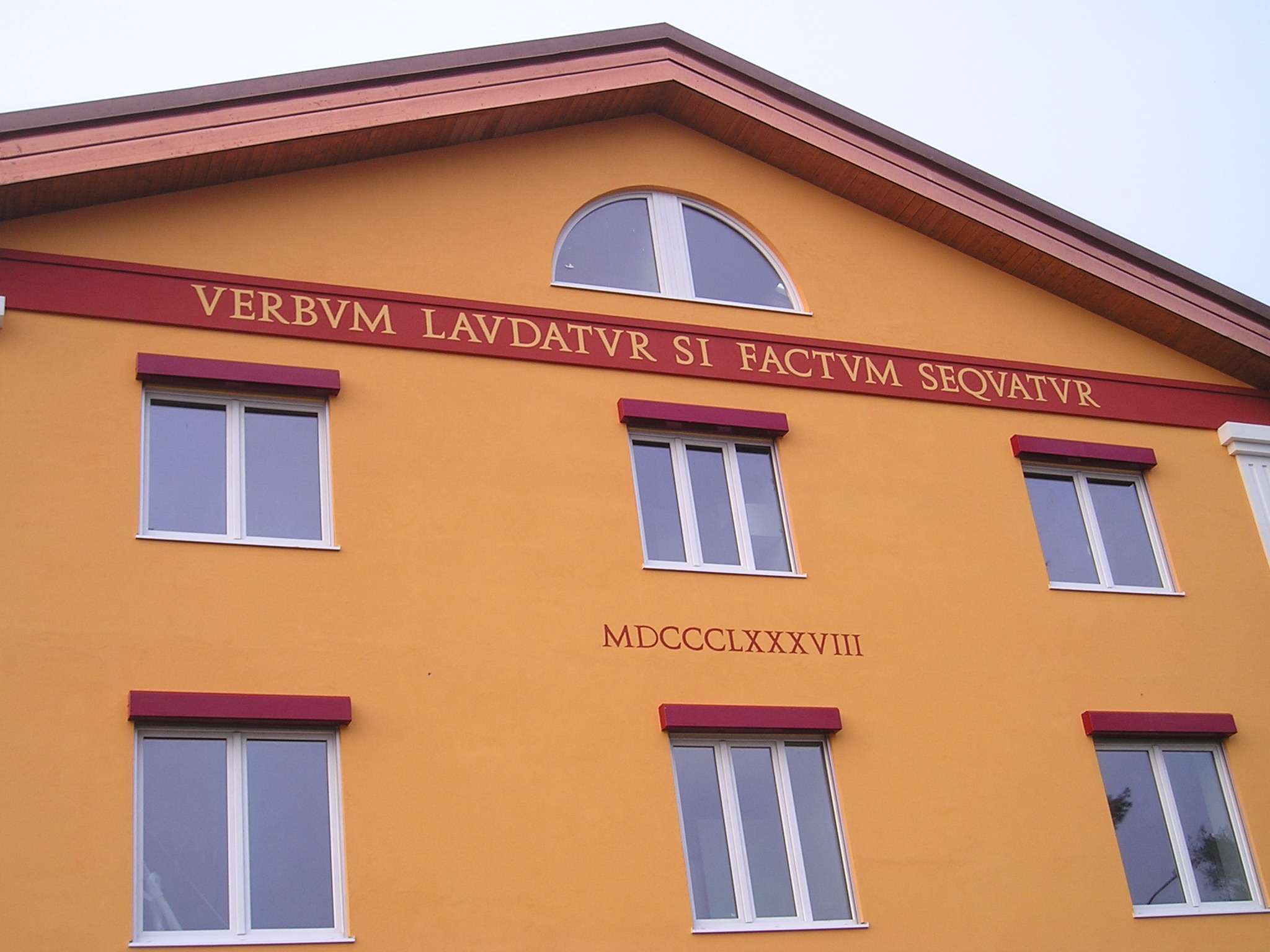 Latin house's inscription in Lugano